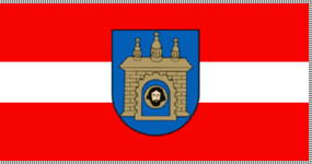 Flag of Skuodas and Skuodas district (Lithuania)